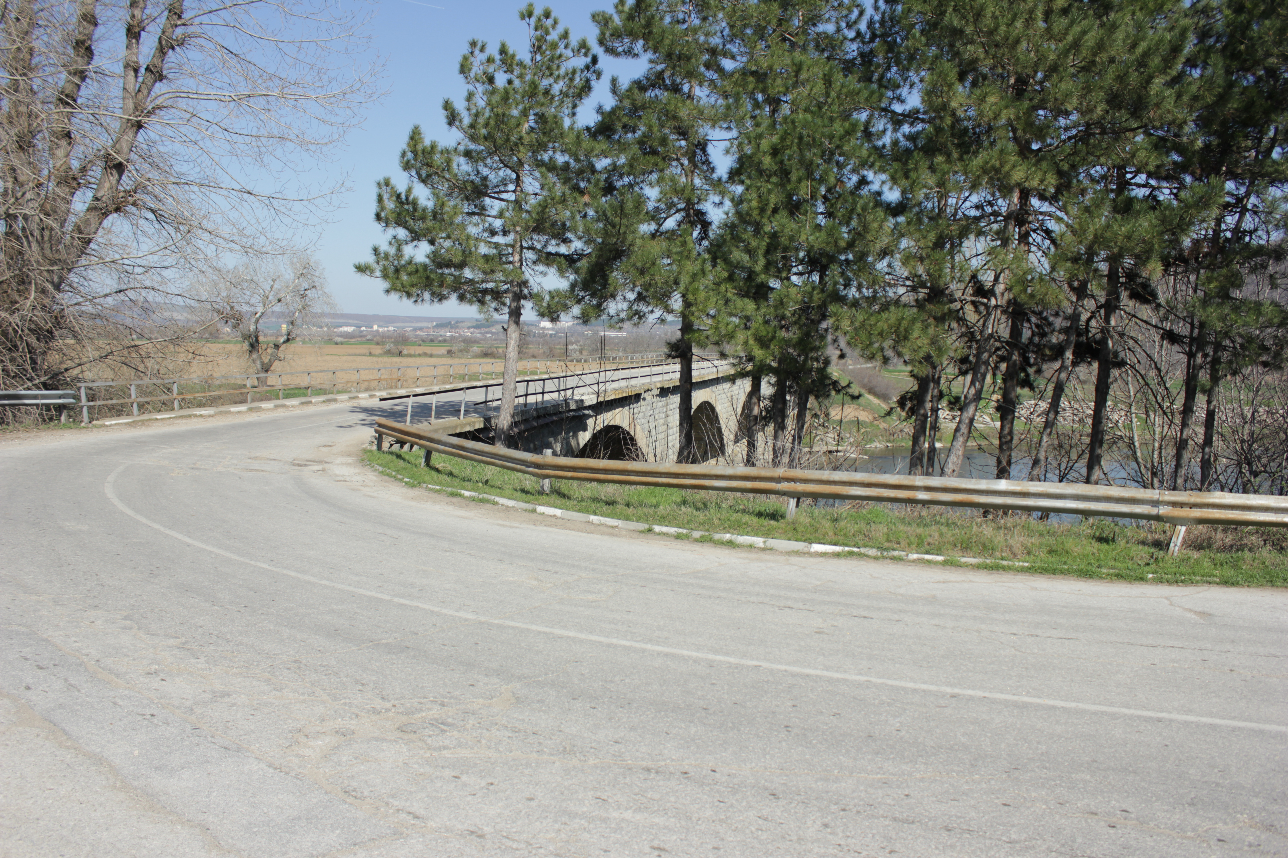 Bridge on River Iskar near Reselets village, Bulgaria